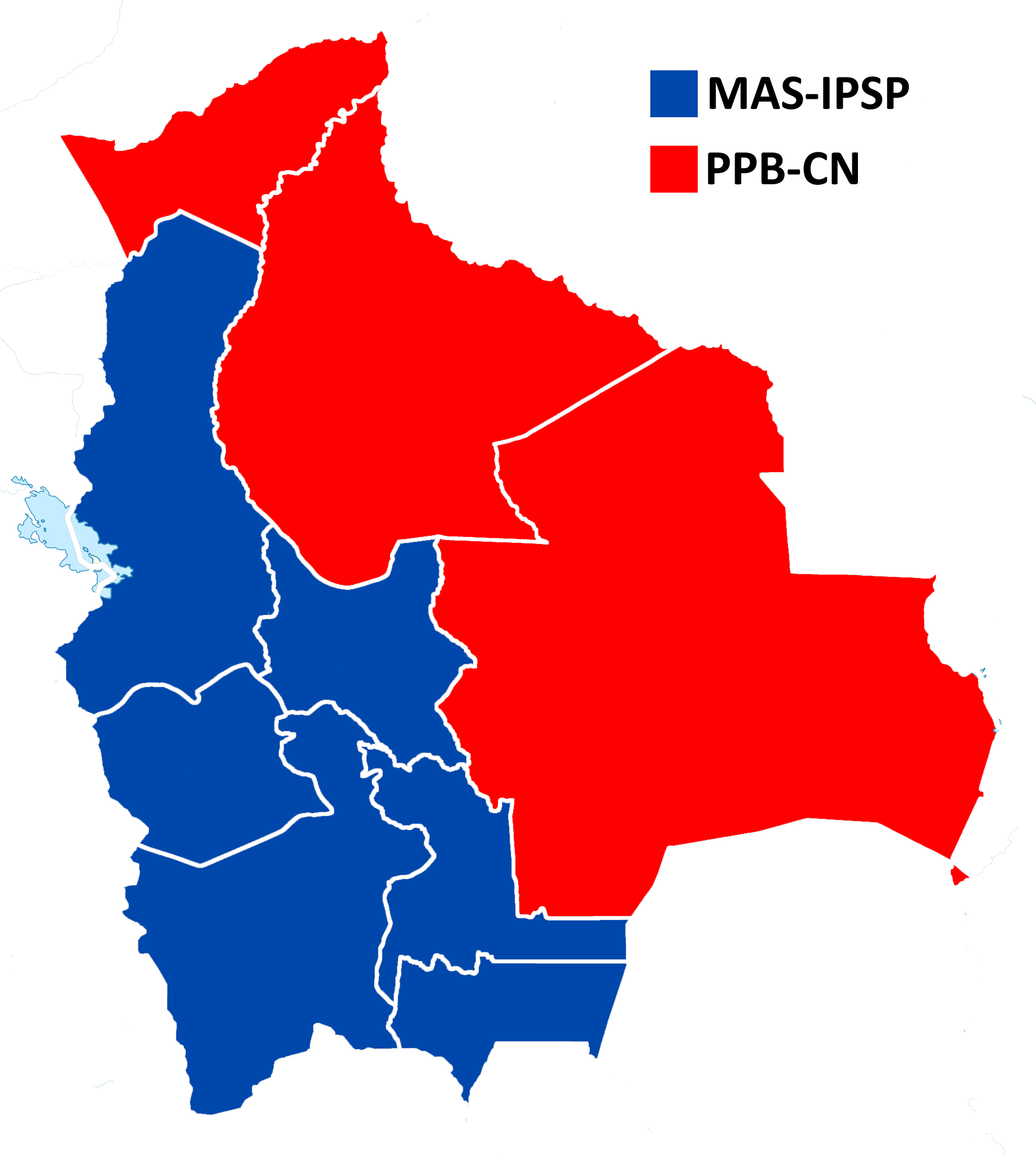 Results of the 2009 Bolivian lection by department. In Blue, departments where Evo Morales won, and in red, departments where Manfred Reyes won.